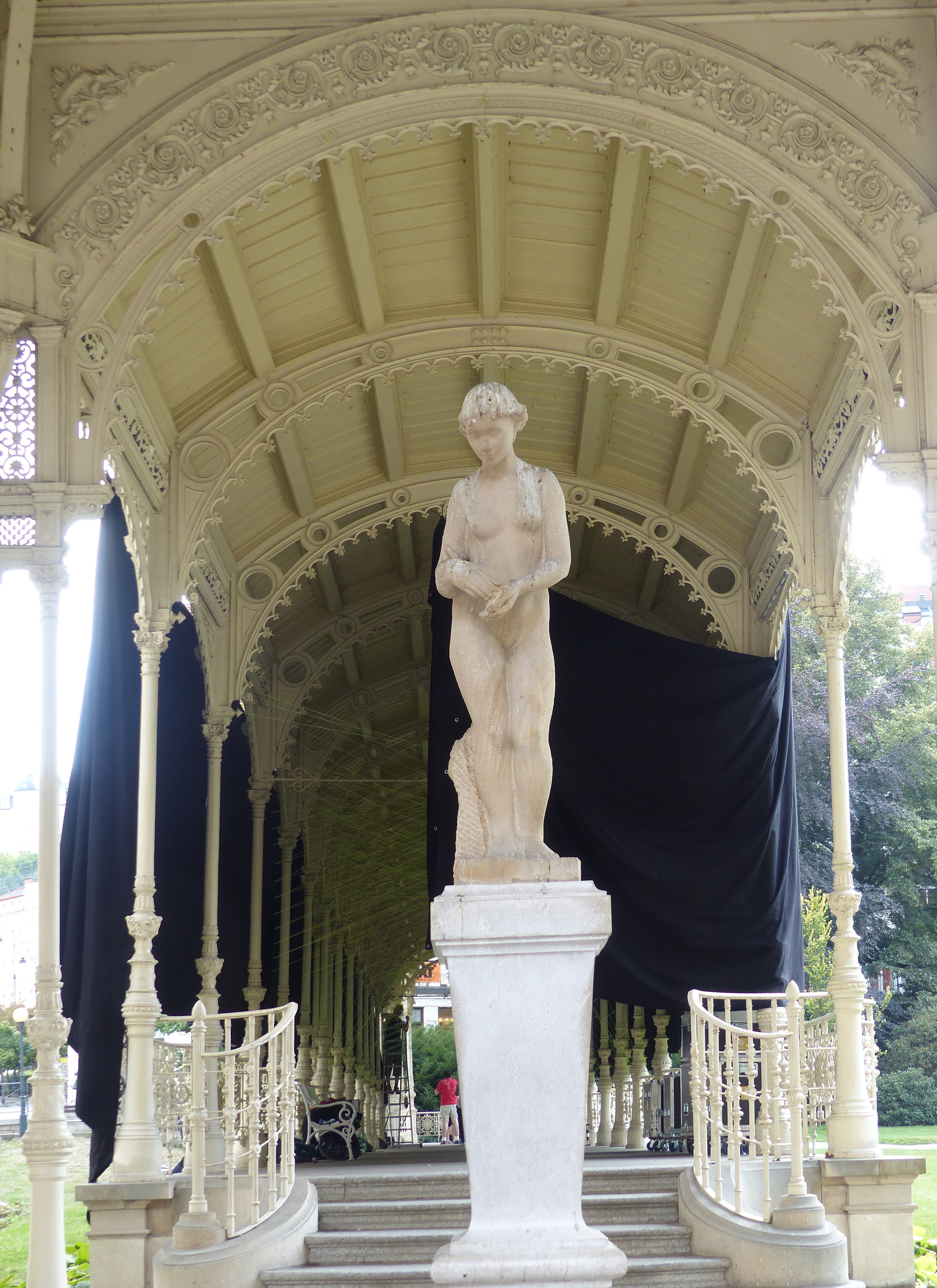 Karlovy Vary ( Czech republic ). Park Colonnade (1881).